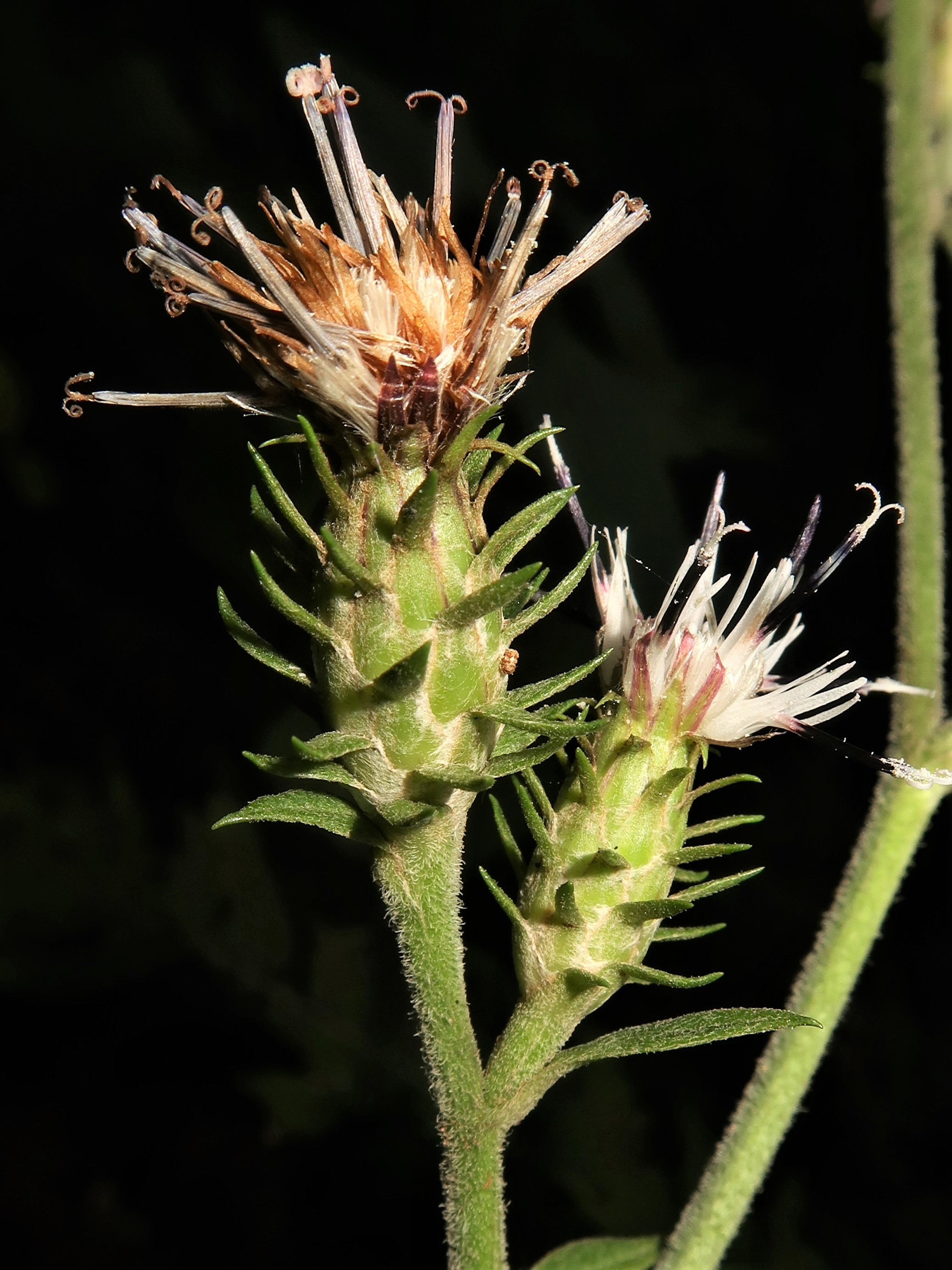 Saussurea yamagataensis, Yamagata city, Yamagata pref., Japan